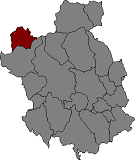 Location of Rellinars in Vallès Occidental